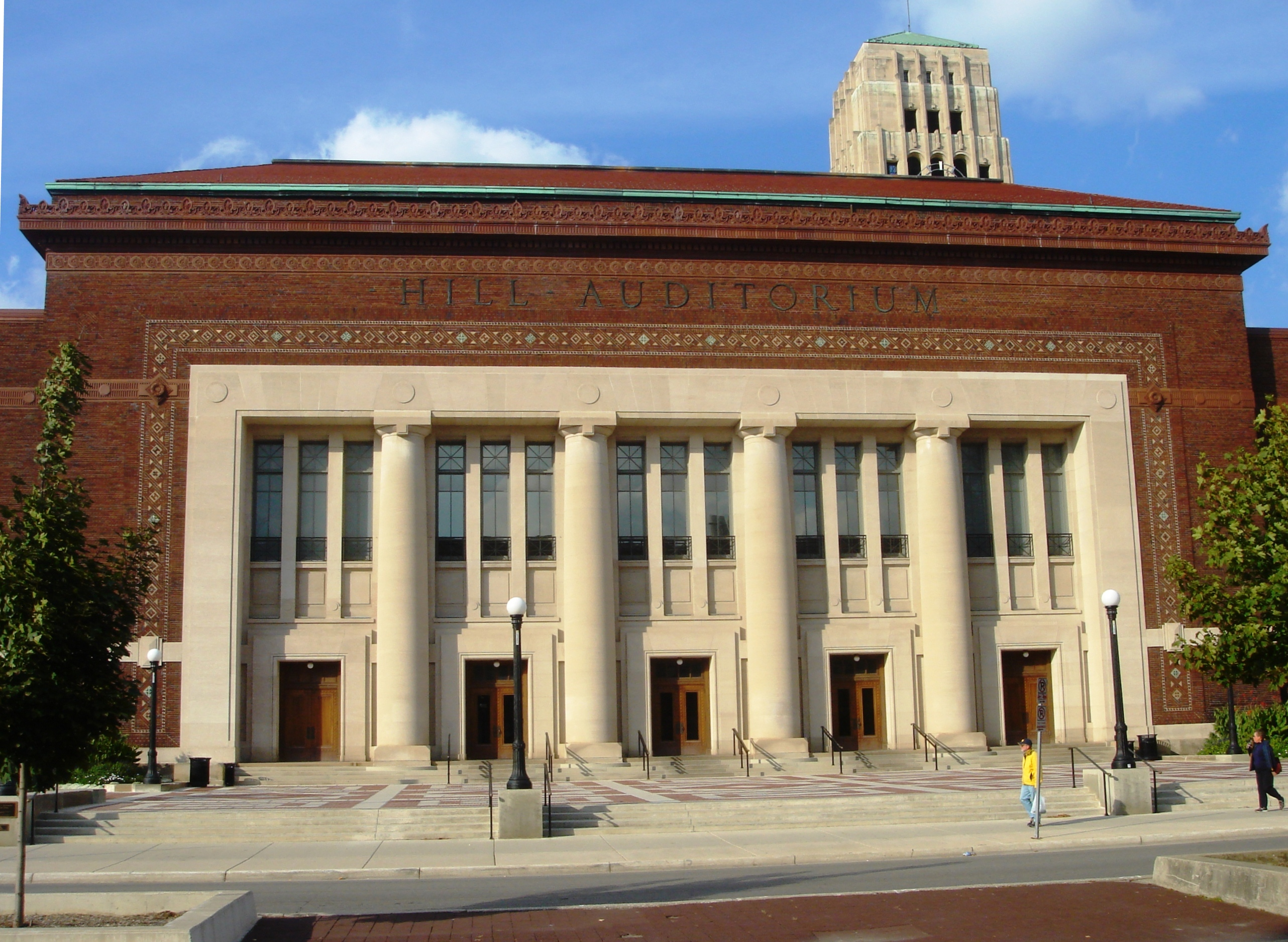 Hill Auditorium, facade, Ann Arbor